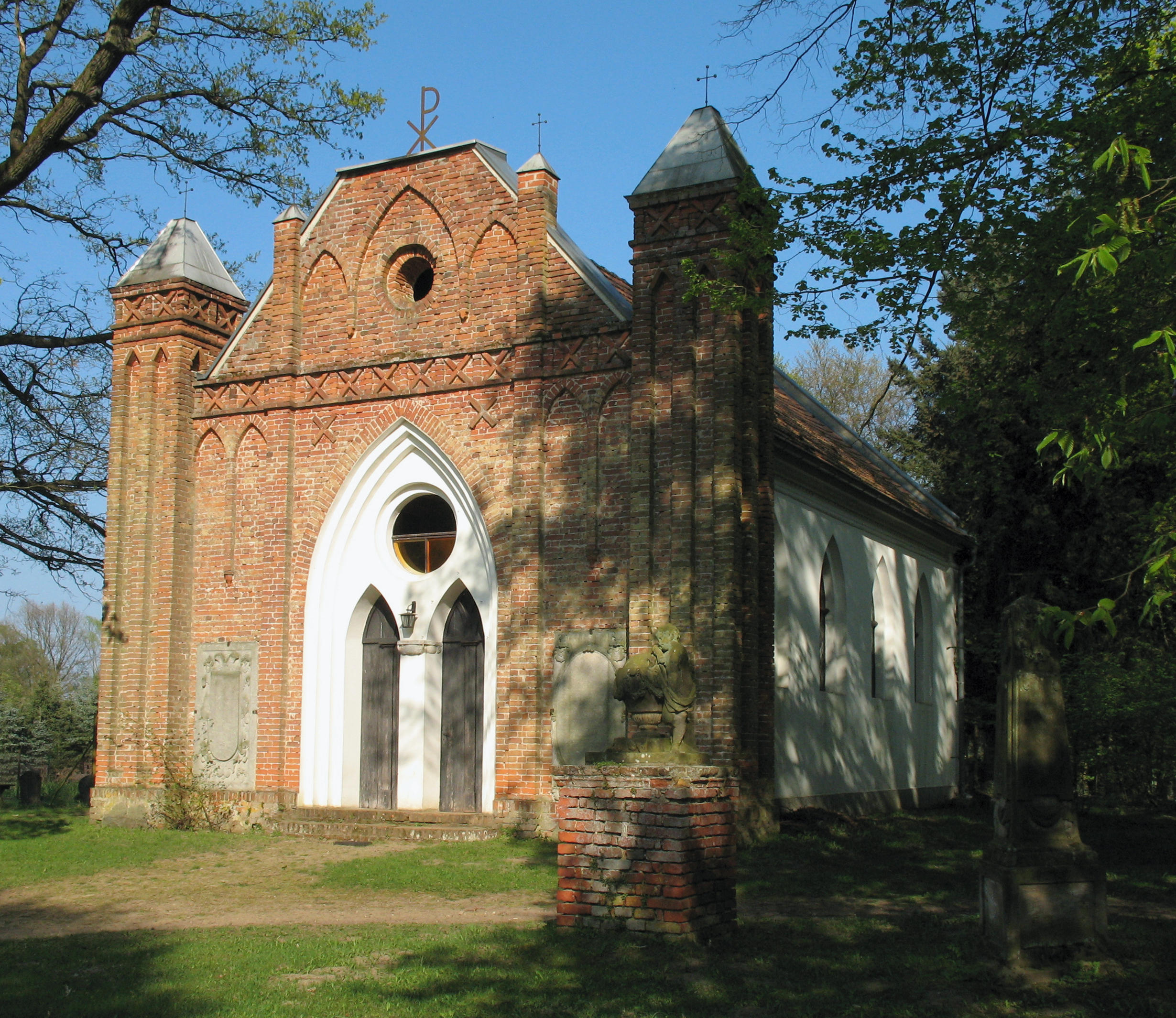 Church in Wusterhausen-Tornow in Brandenburg, Germany